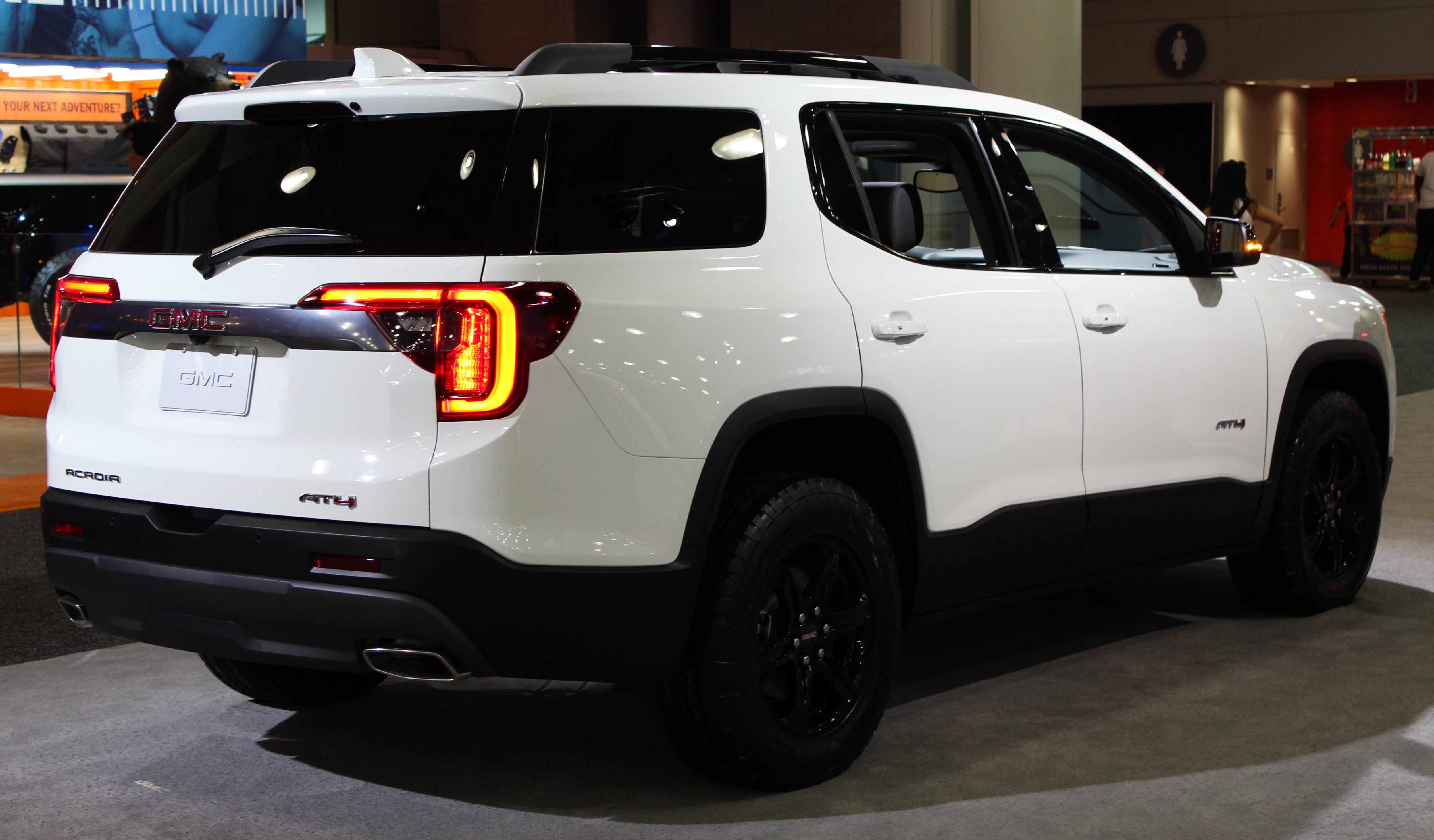 A 2020 GMC Acadia AT4 photographed during the 2019 New York International Auto Show, in Hudson Yards, Manhattan, NYC